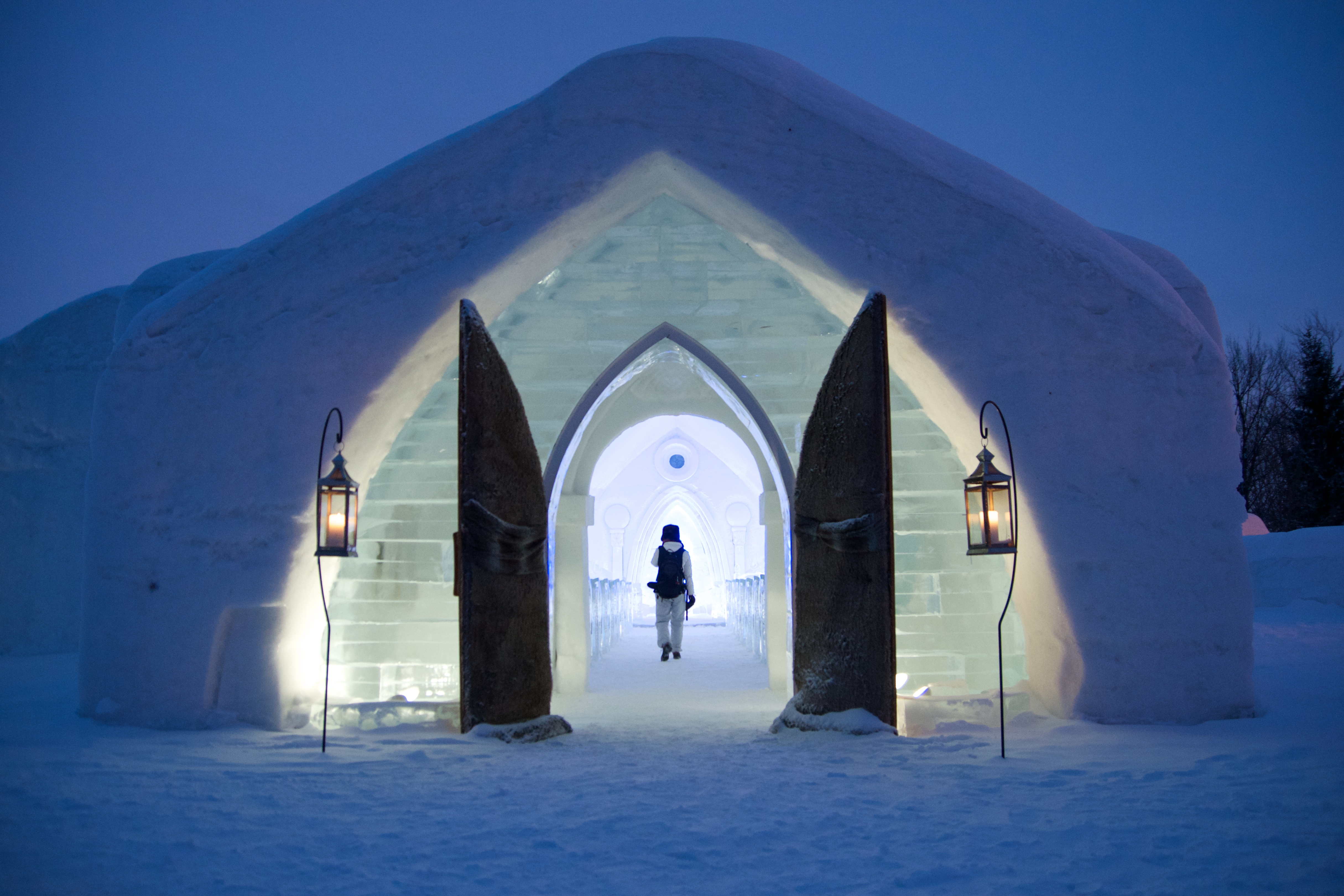 Chapel of the ice hotel. This ice hotel is built every year near Quebec City. Inside, each room its own design. That's an interesting challenge for architect students, who take part to this adventure. The hotel has a chapel, a sauna, and a bar, where you can drink some fancy cocktails in ice glasses.The title of this photograph is: Ice Chapel